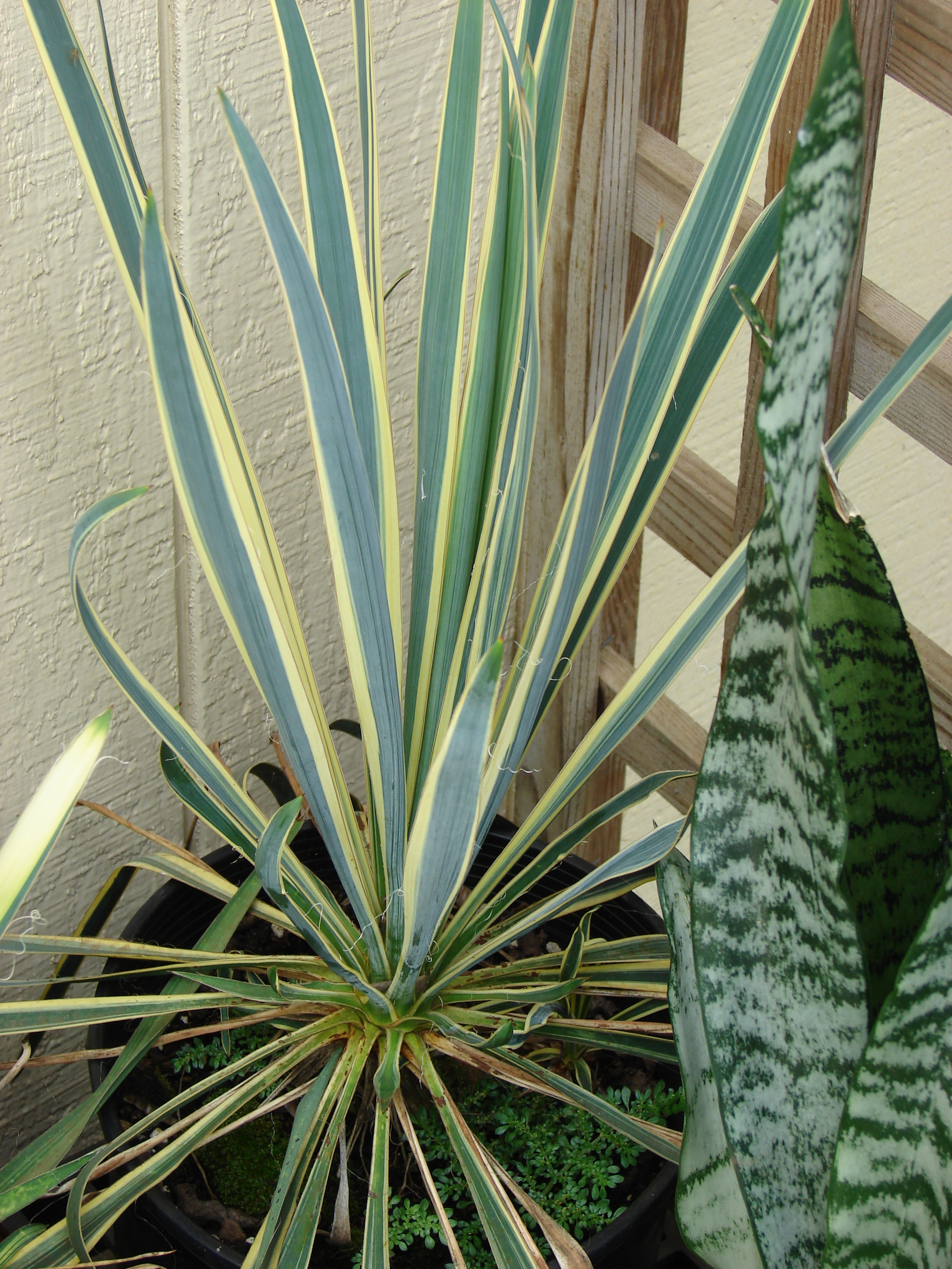 Yucca filamentosa (Golden sword leaves). Location: Maui, Kula Ace Hardware and Nursery